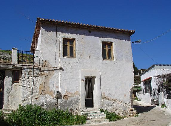 Traditional house in Magoula, Attica, Greece